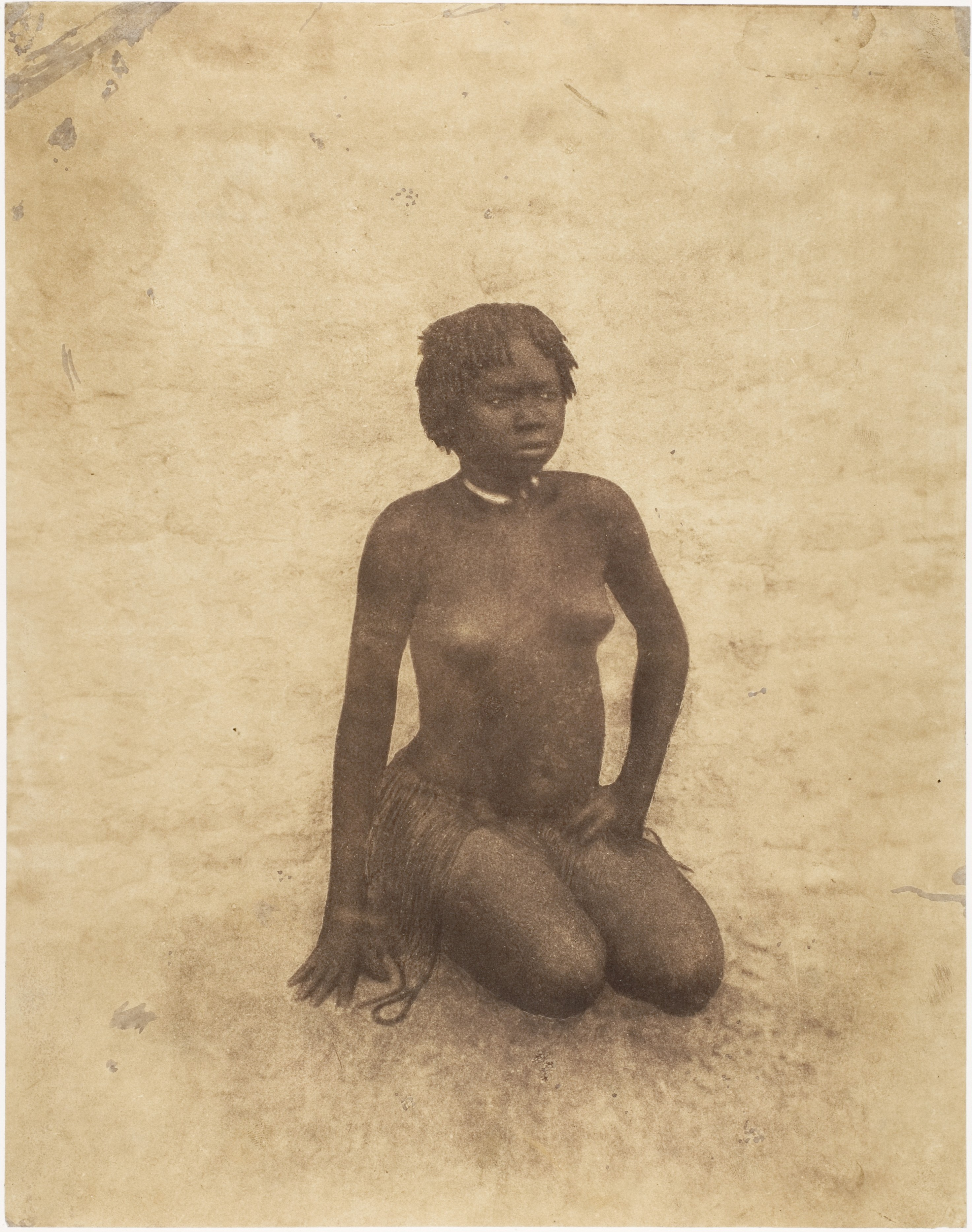 Photographs; Photographs